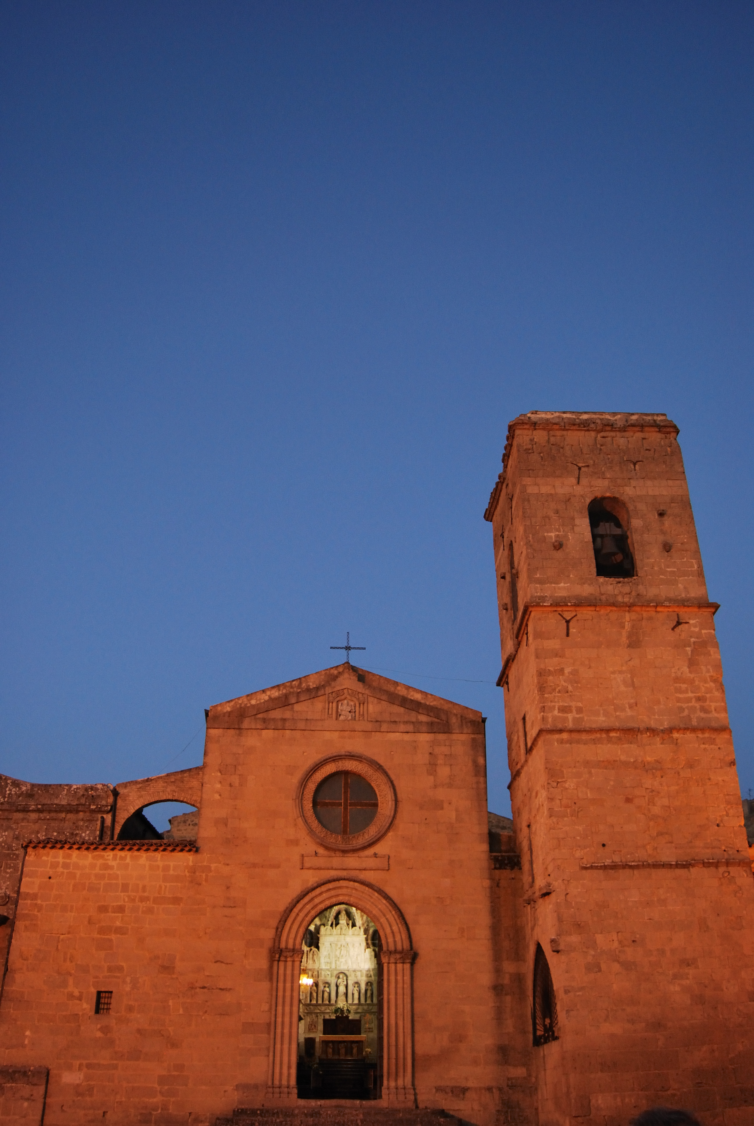 Basilica San Leone Church's entry